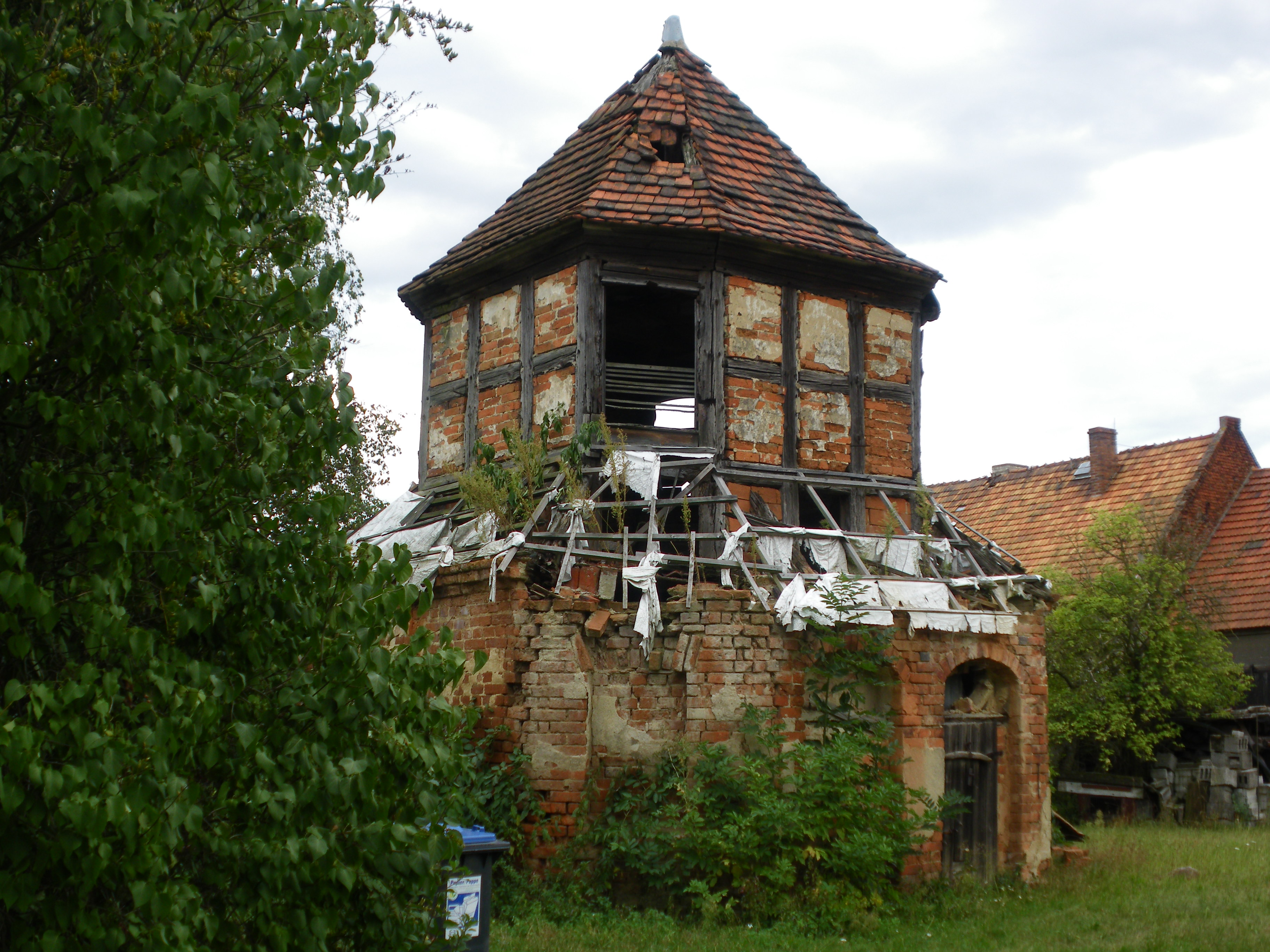 Dovecot in Mallenchen, Calau, Brandenburg, Germany